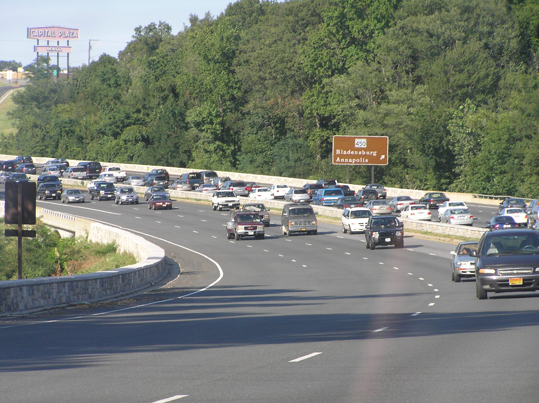 A shot of the Baltimore-Washington Parkway south of the exit for MD 450